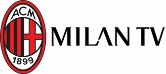 Logo of the Italian TV specialty channel Milan Television, also known as Milan TV.